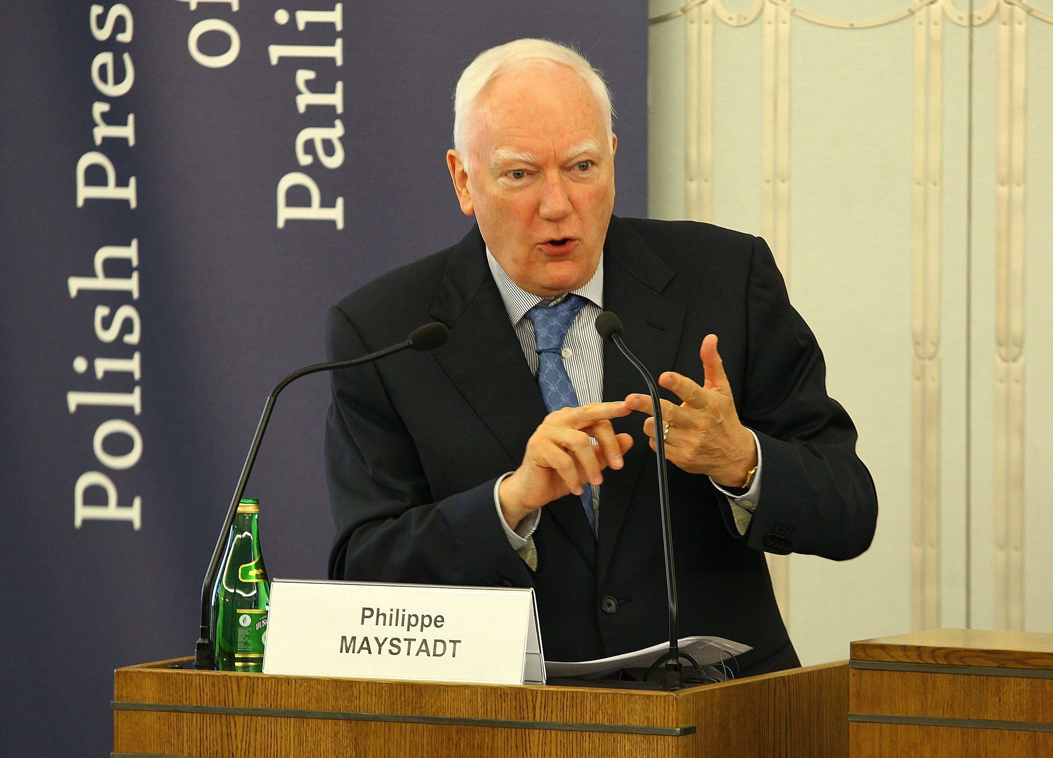 President of the European Investment Bank Philippe Maystadt. Conference "Needs and the sources of financing of EU energy policy till 2020" in the Polish